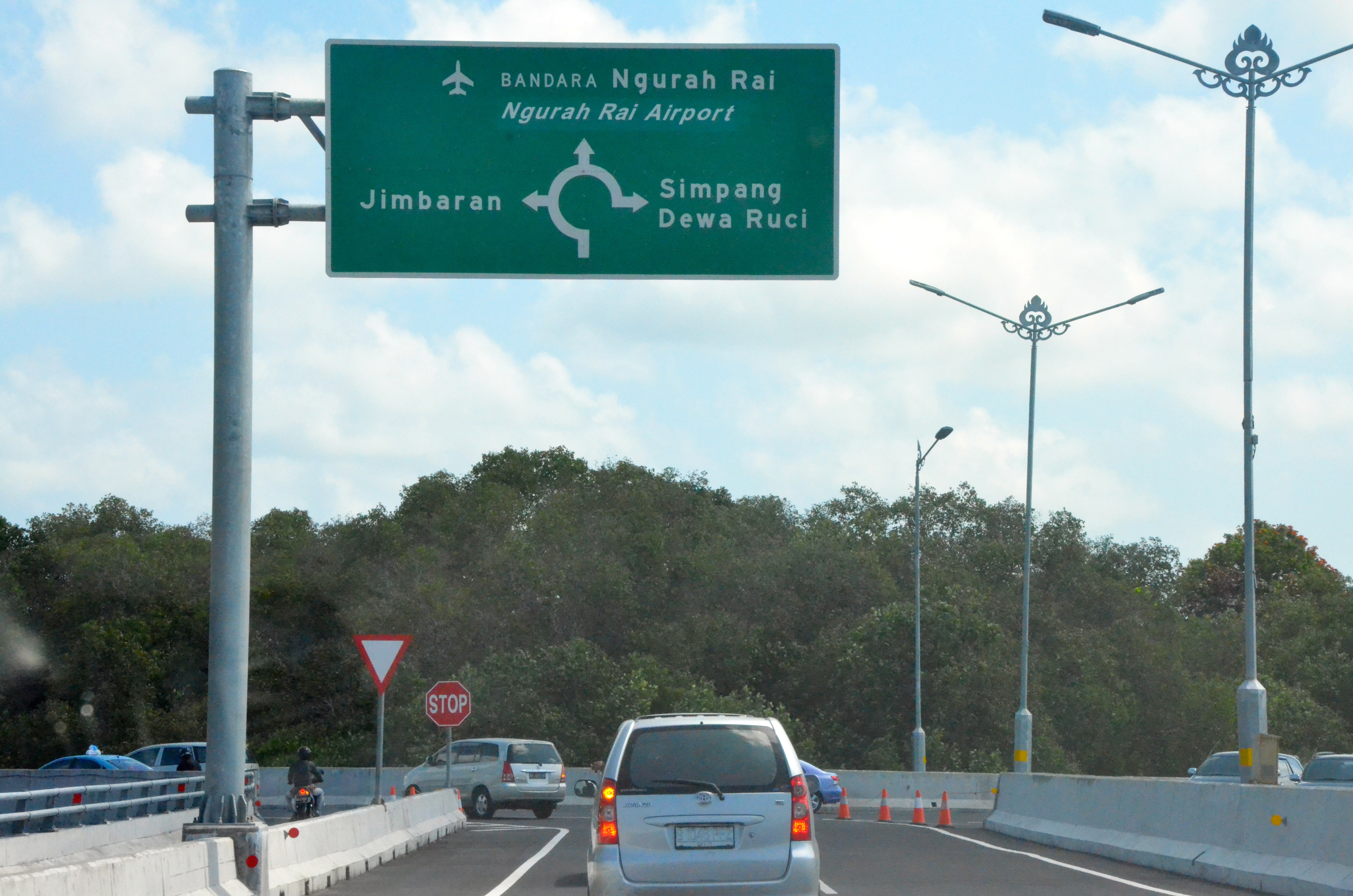 Directional sign in Ngurah Rai Circle, Bali, Indonesia